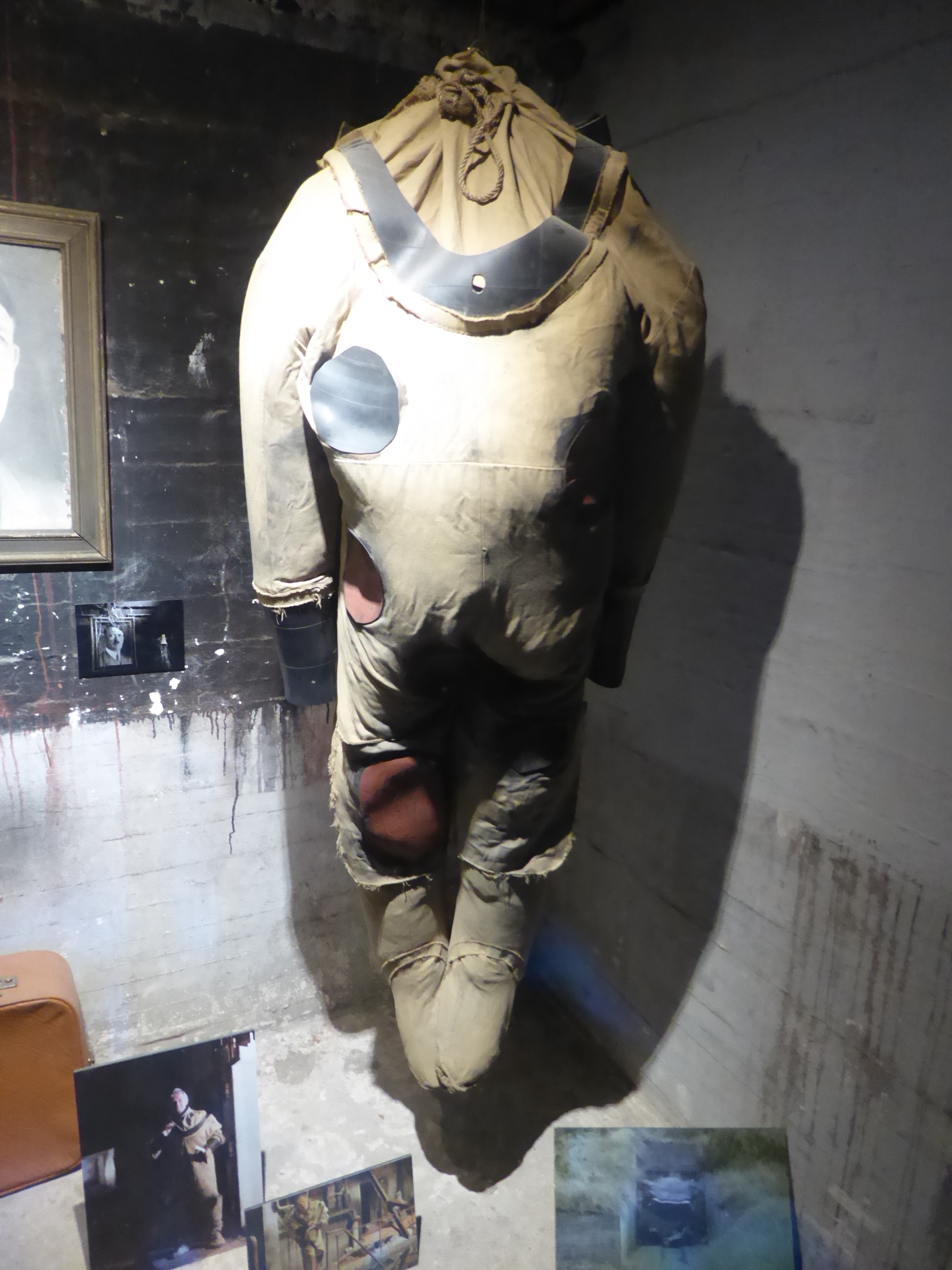 Diving suit used by Egon Olsen played by Ove Sprogøe the Danish 1971 movie Olsen-banden i Jylland in a special Olsen-banden exhibition at Nordisk Film in Copenhagen. It doesn't look particular safe.